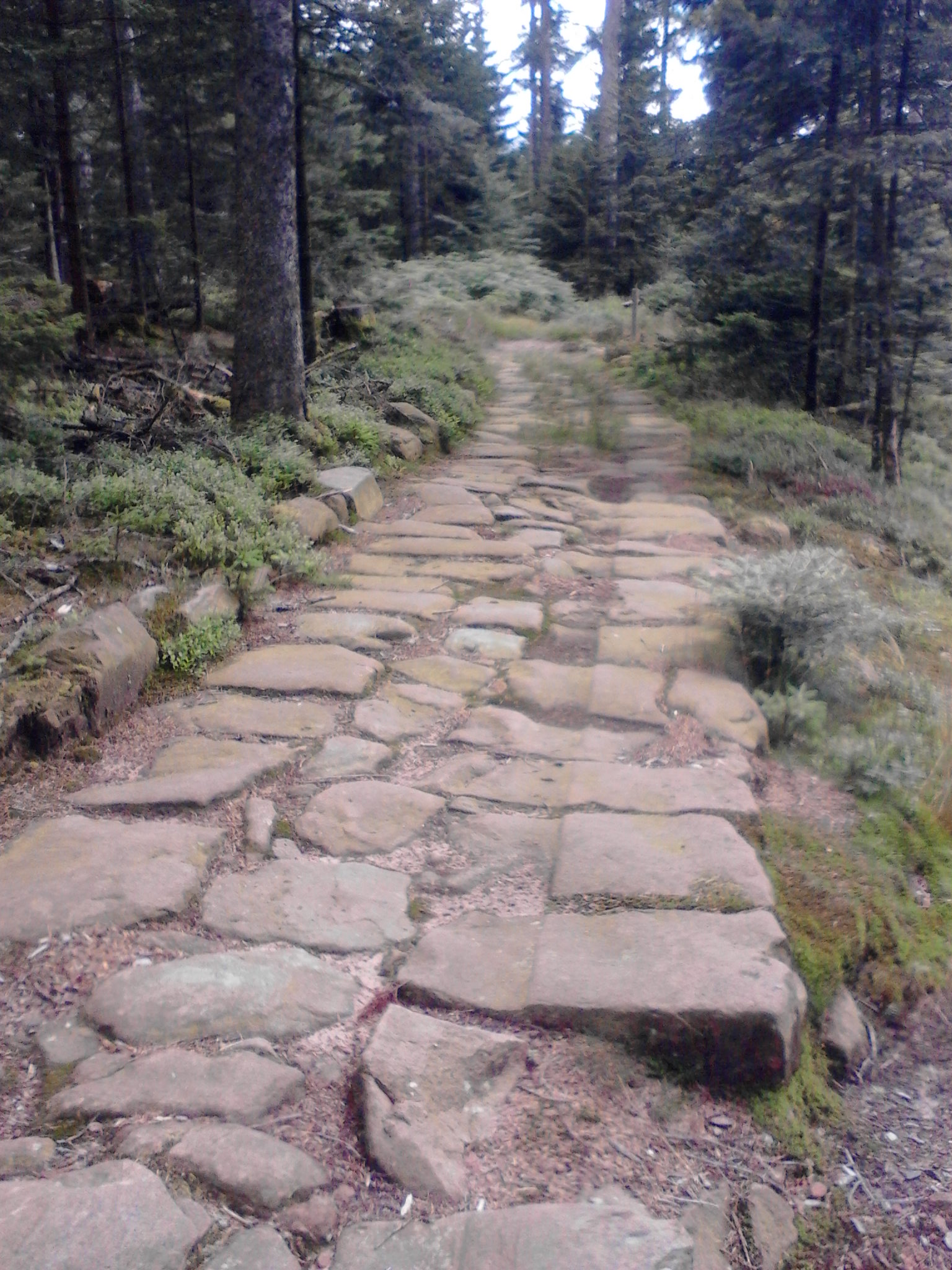 Well preserved roman road in the Vosges forest near Raon-les-Leau (département 54).